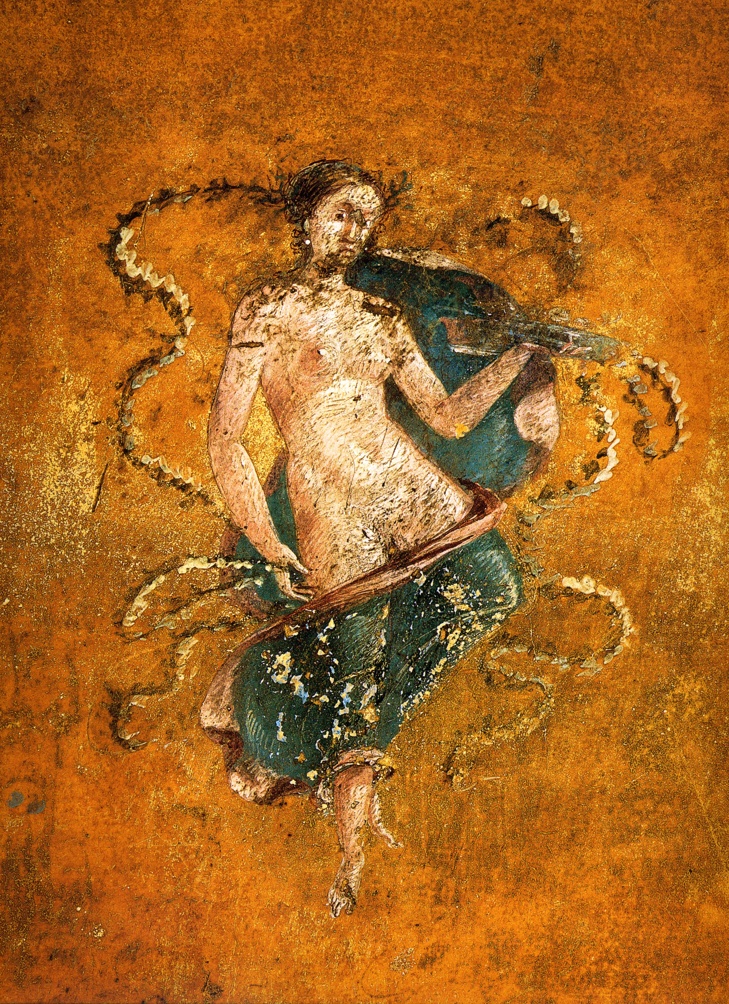 Floating maenad with offerings on a plate. Detail of a roman fresco from a triclinium in the Casa del Centenario (IX 8,3-6) in Pompeii.